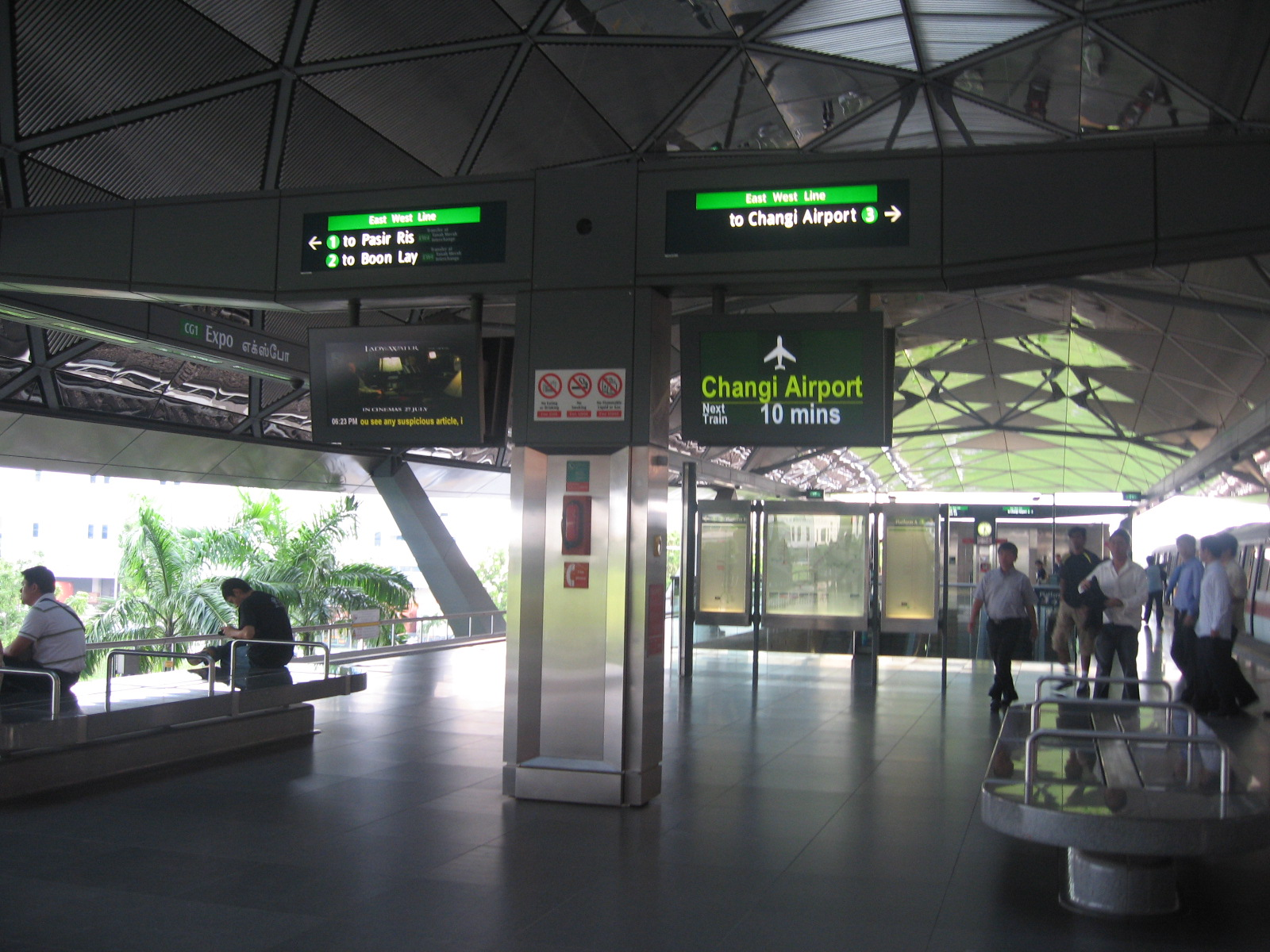 Expo MRT Station.